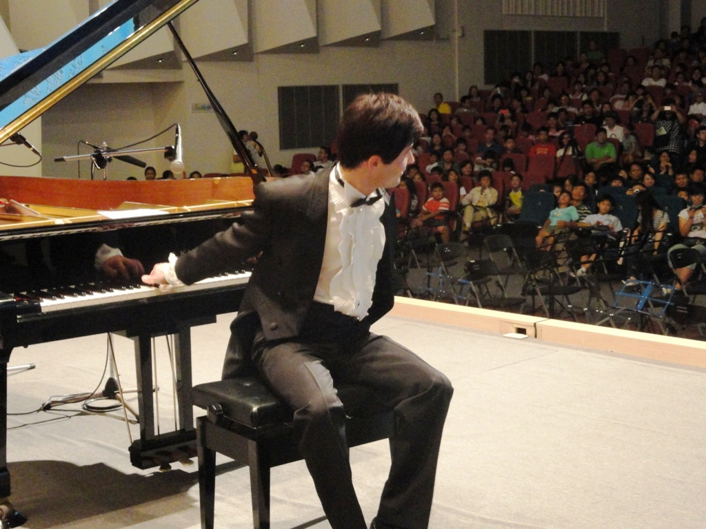 Pianist Giorgi Latsabidze giving a Charity Gala Concert in Taiwan, August 1st, 2010